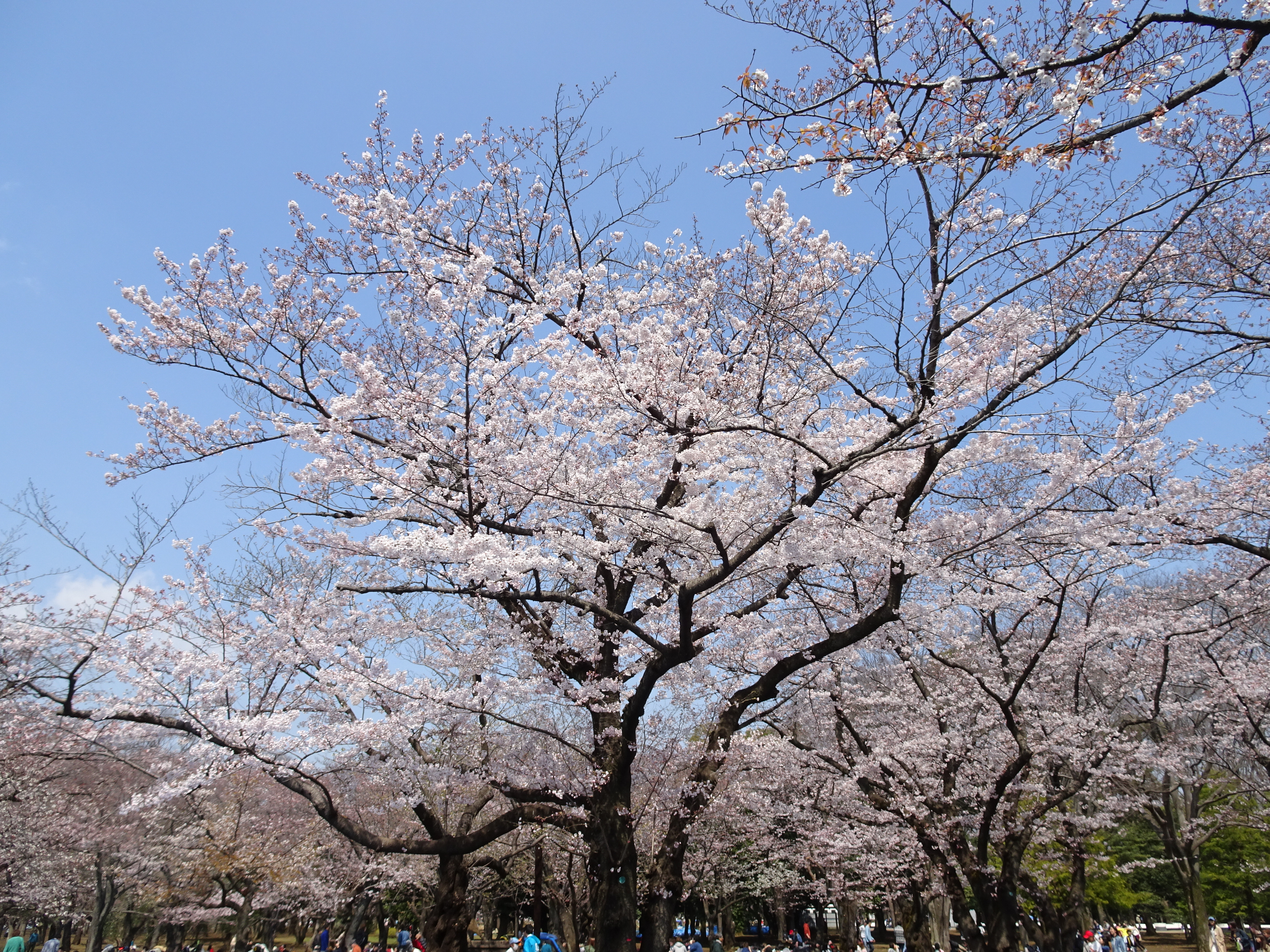 Cherry blossoms in Yoyogi Park, in Tokyo